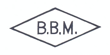 BBM-logo 1934-1968